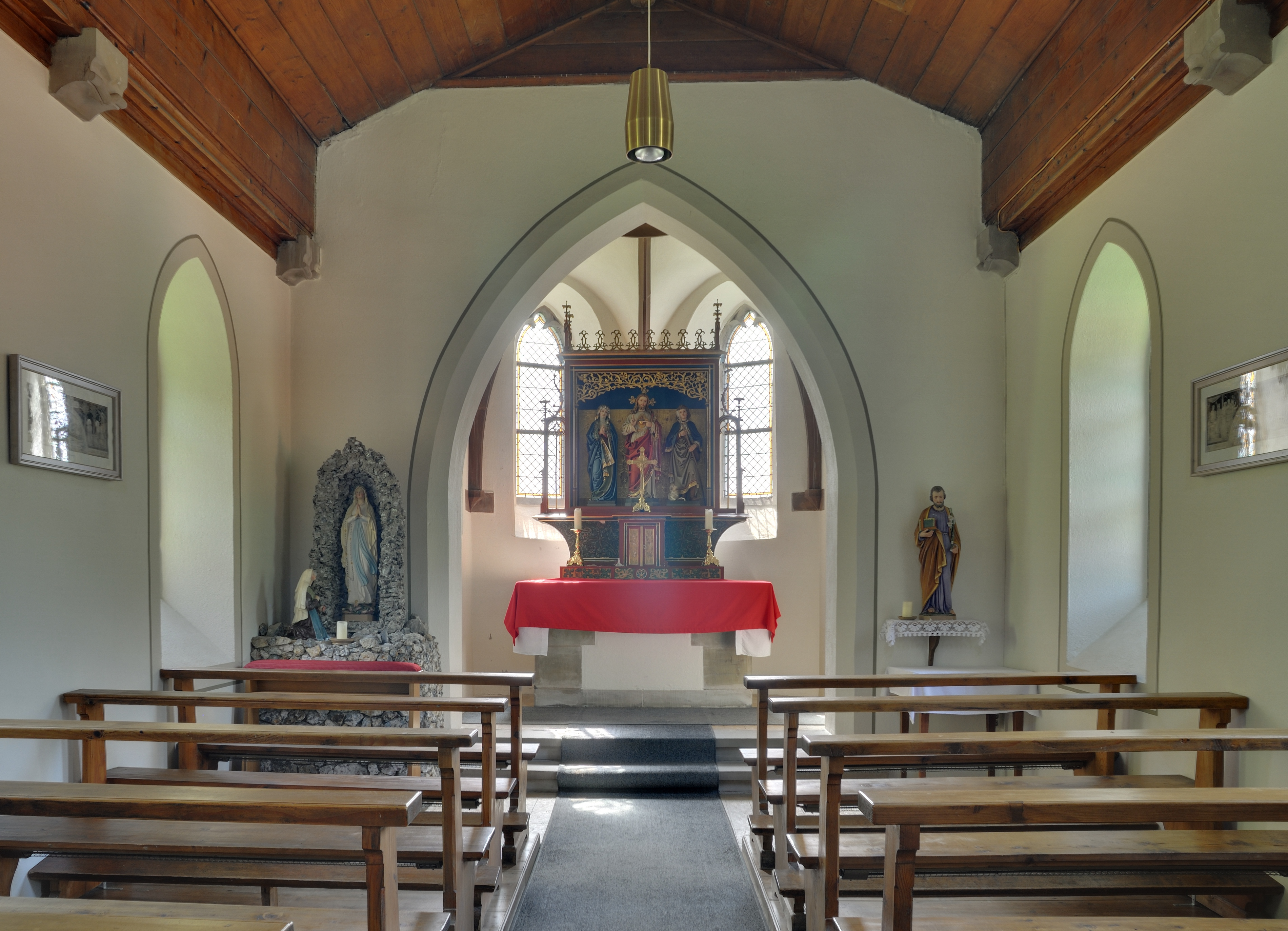 Tunau: Sacred Heart Church